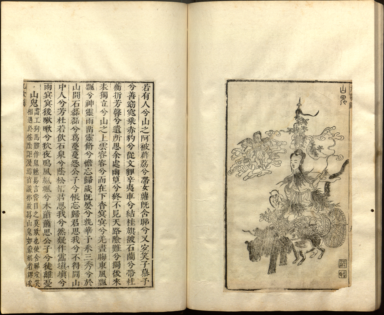 "Mountain Spirit" (Shan Gui), from Nine Songs section, poem number 9 0f 11, of annotated version of Chu Ci, published under title Li sao, author attribution as Qu Yuan (actual authors of the Nine Songs section unknown), and with illustrations by Xiao Yuncong.